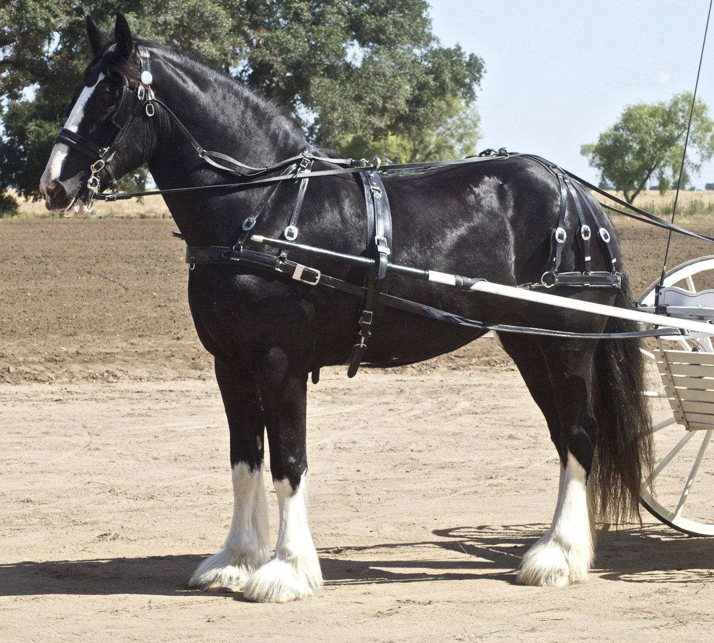 Shire horse